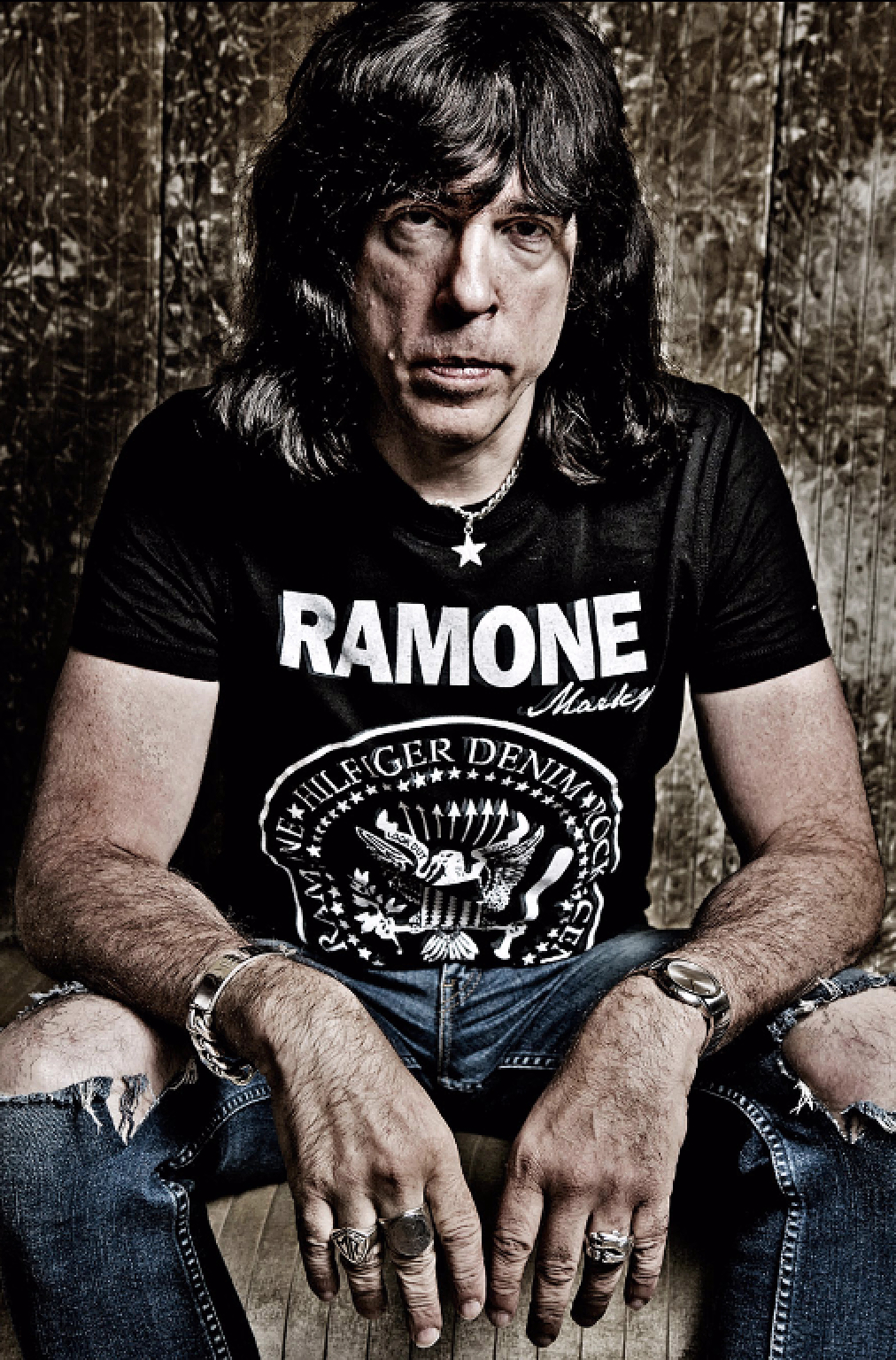 Portrait of Marky Ramone, photographed by Matti Hillig. The photo was taken in Barcelona on March 5, 2009. Marky Ramone is a musician. He was the drummer of the punk-rock band The Ramones. He is the last survivor of the band. High-resolution versions of this and more photos are available. Please contact me